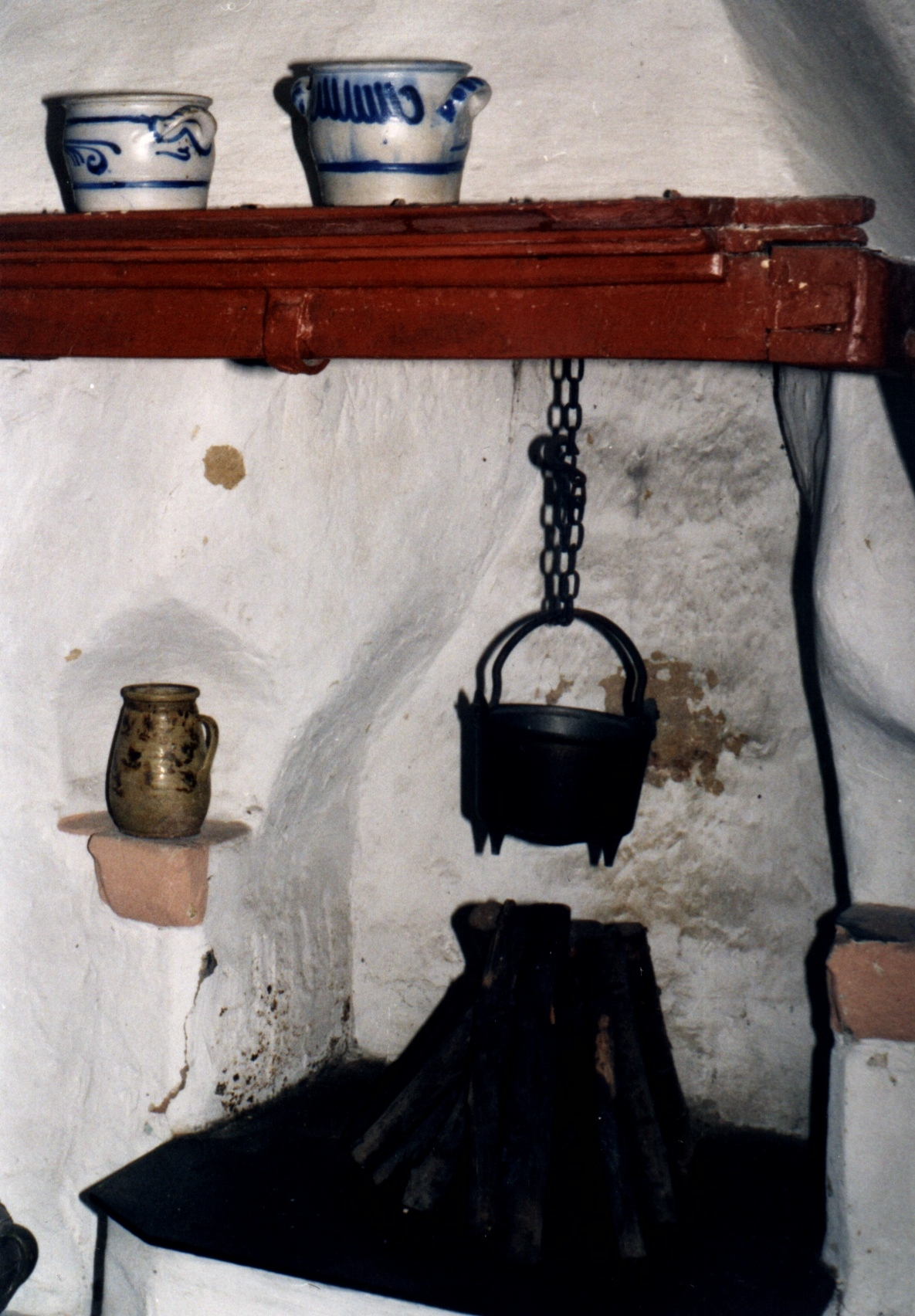 Pfalzgrafenstein Castle, kitchen in the courtyard